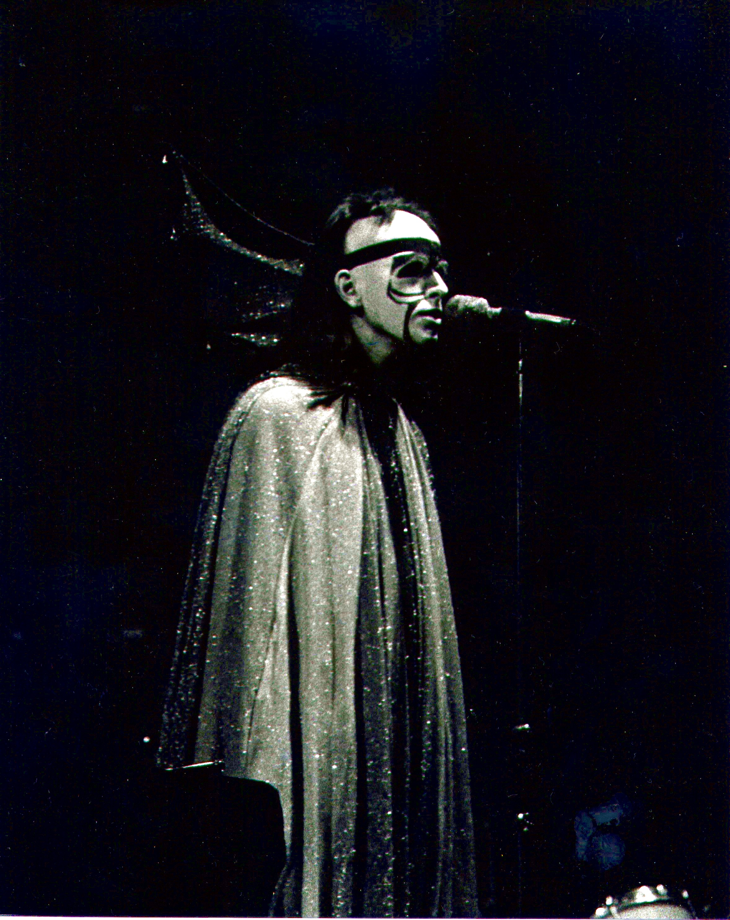 Genesis, at Massey Hall, Toronto, 1974.